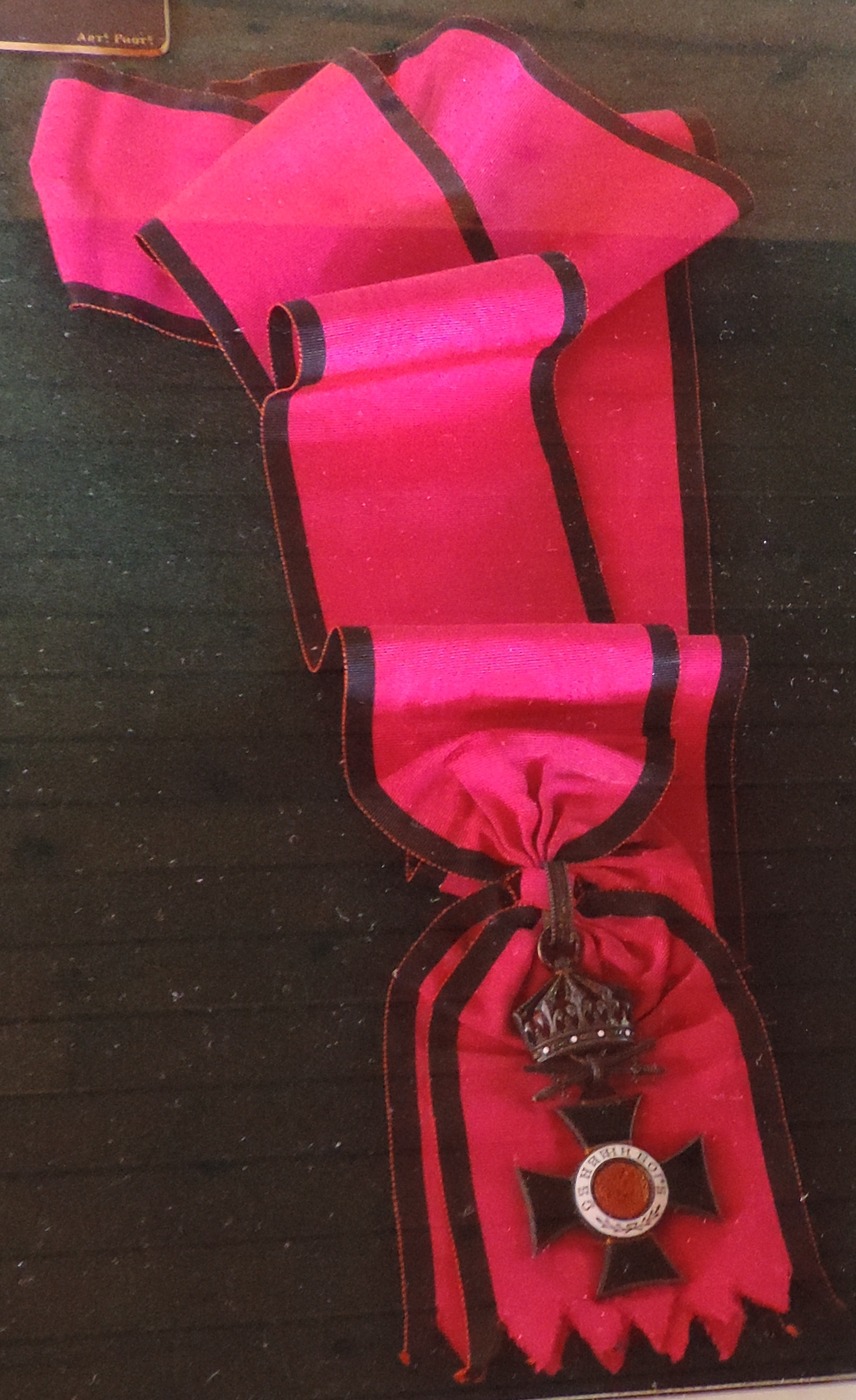 Order of St Alexander-Kiril Botev